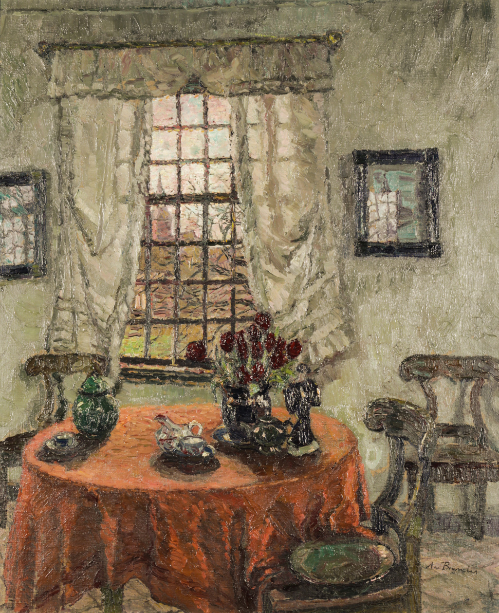 "Red in the garden pavillon"